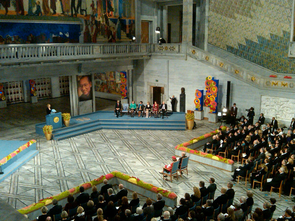 2010 Nobel Peace Prize Ceremony